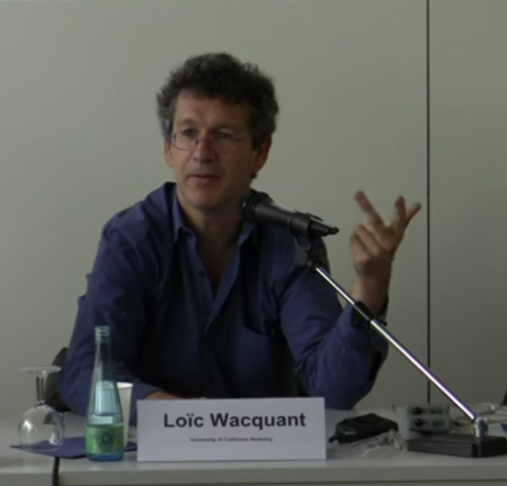 Discussion with Loïc Wacquant entitled 'the Making and Unmaking of the Precariat' about his analysis on the formation of the neoliberal state. Presented at Das Prekariat zwischen Krise und Bewegung« - International Conference, Berlin, June 2009.